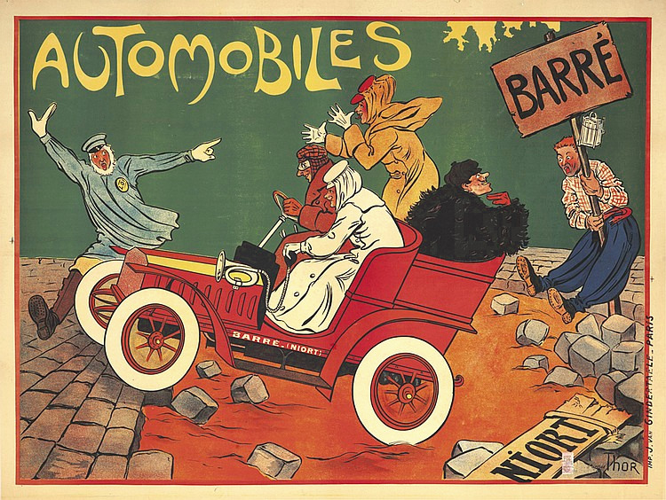 Poster Automobiles Barré